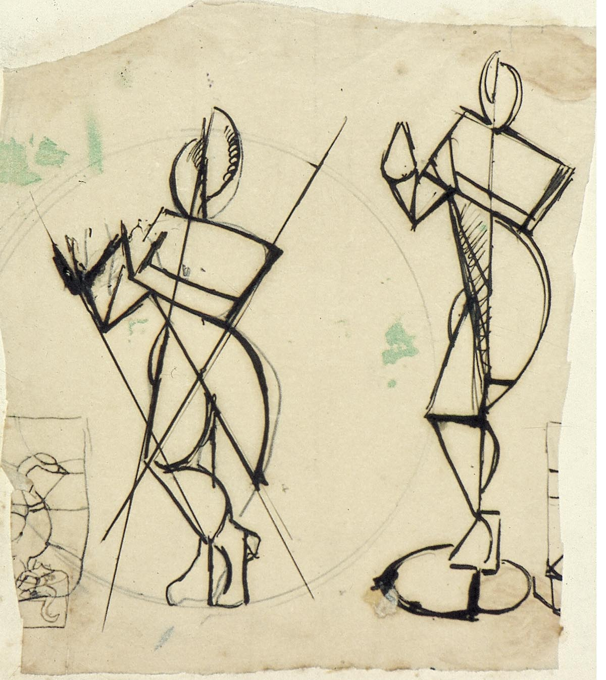 Study for File:Theo van Doesburg Dancers 1916.jpg and File:Theo van Doesburg Leaded Glass Composition I.jpg